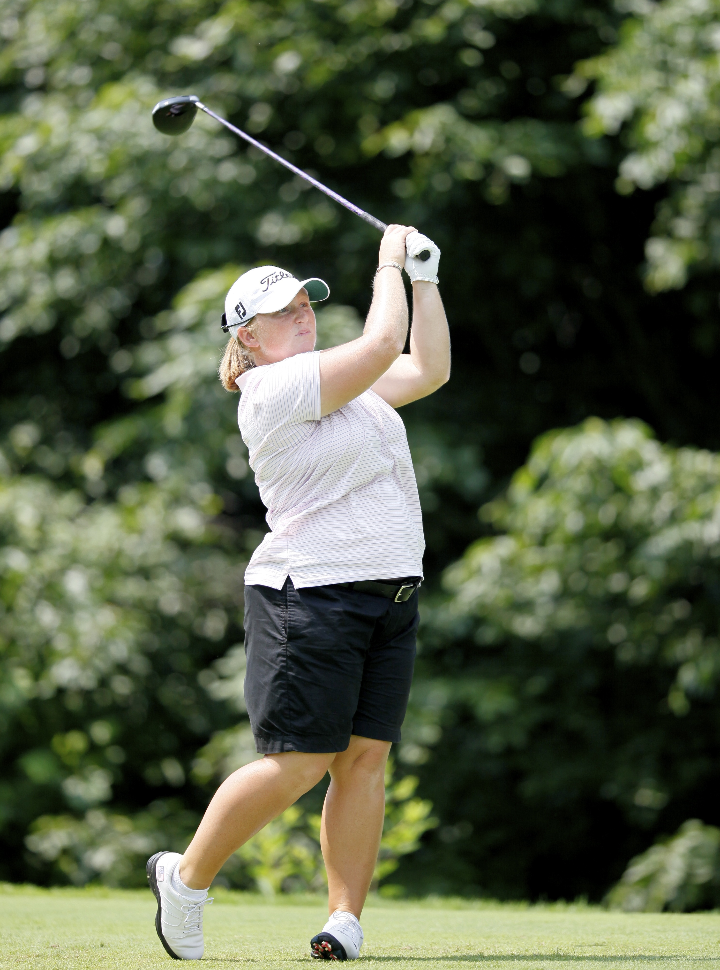 HAVRE DE GRACE, MD - JUNE 10: Meredith Duncan (USA) during practice round before 2009 LPGA Championship held at Bulle Rock Golf Course, on June 10, 2009 in Havre de Grace, Maryland. (Photo by Keith Allison)